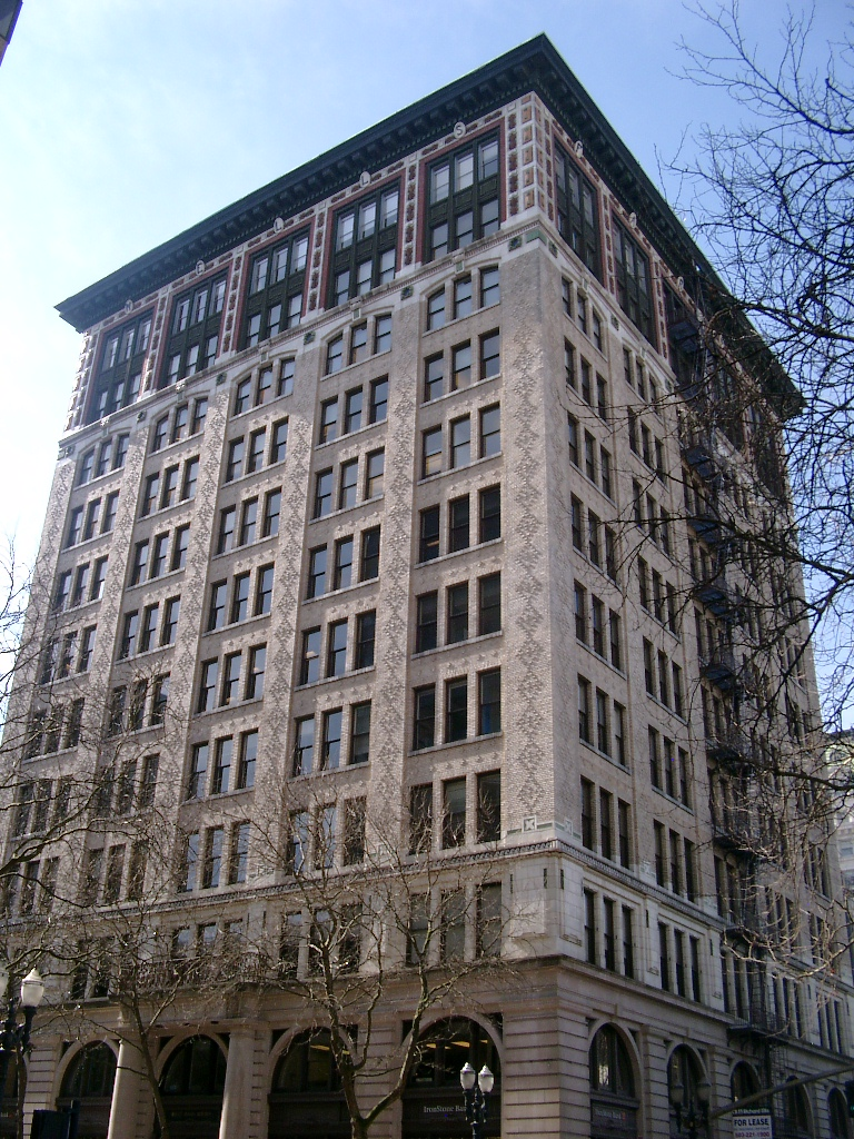 The Wells Fargo Building in Portland, Oregon. Taken by myself.